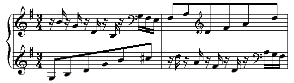 Musical quotation from Goldberg Variations (Variation 20) by Johann Sebastian Bach (1685–1750).